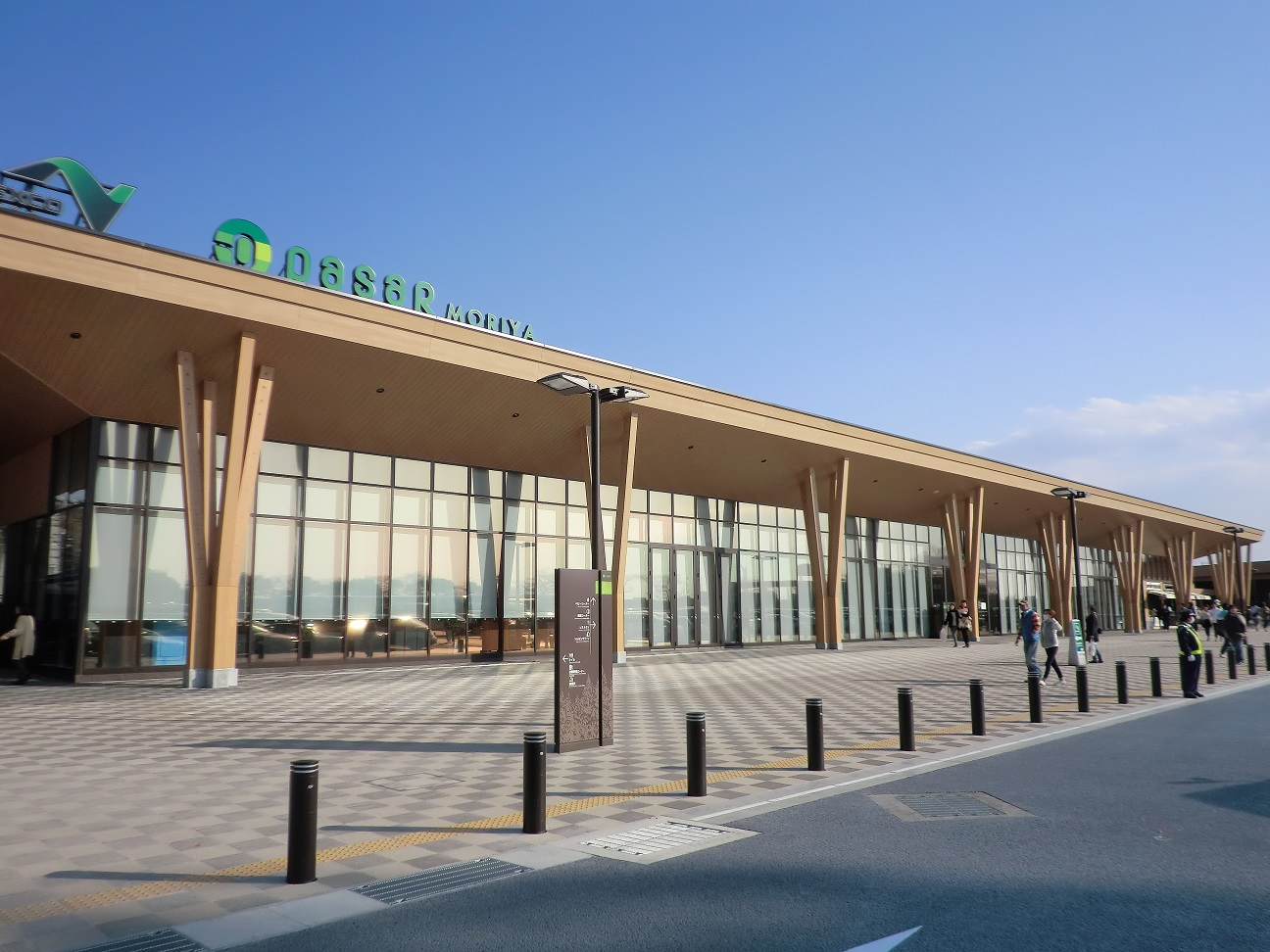 Moriya Service Area, aka Pasar Moriya, on the Joban Expressway inbound line